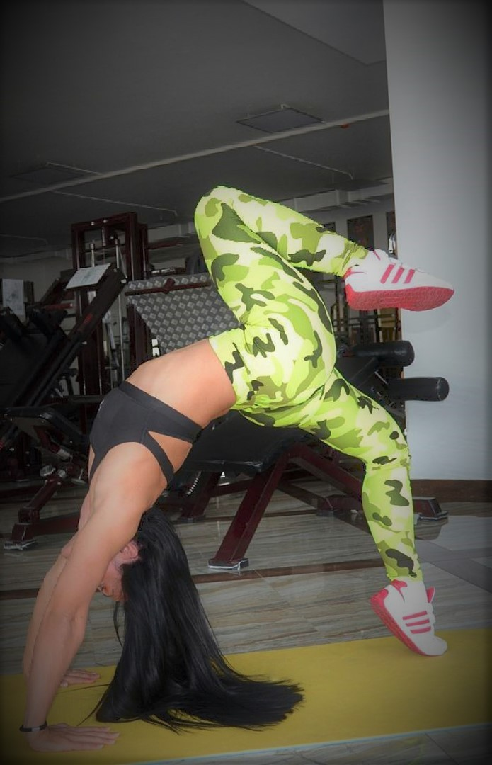 Golbarg Tehran Physical fitness.